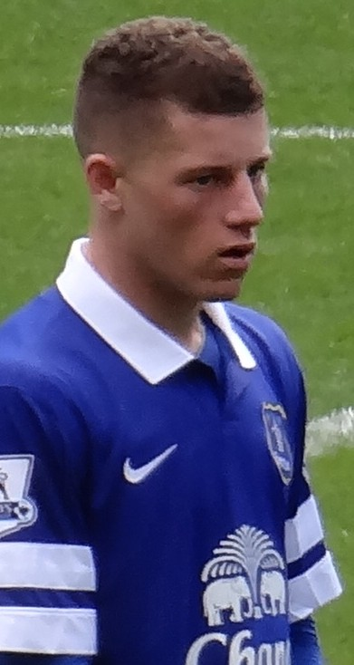 Ross Barkley playing for Everton in 2013.